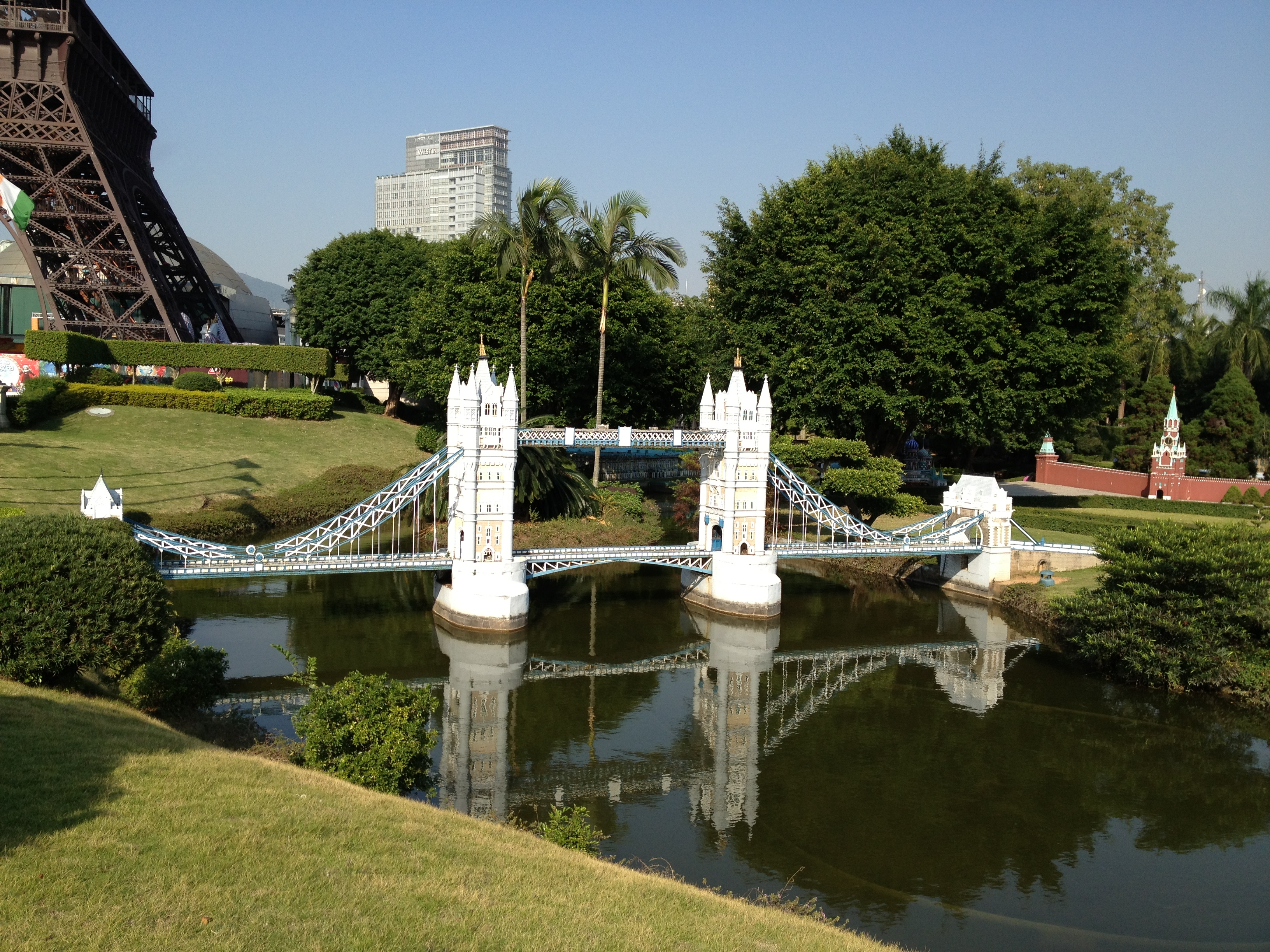 Scale model of the Replica of London Tower Bridge at the Window of the World in Shenzhen-China